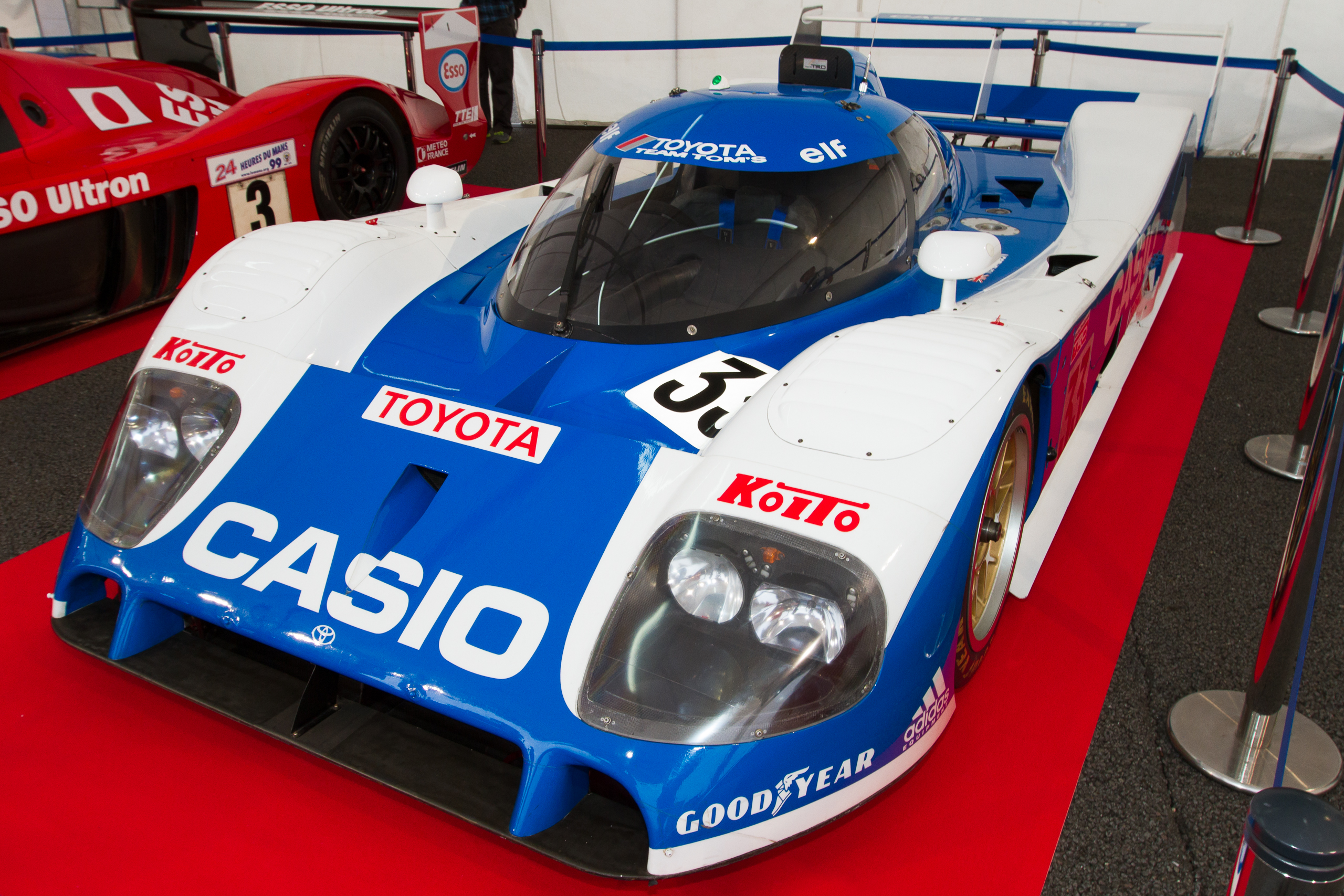 FIA World Endurance Championship 2012 Rd.7 6 Hours of Fuji: Toyota TS010